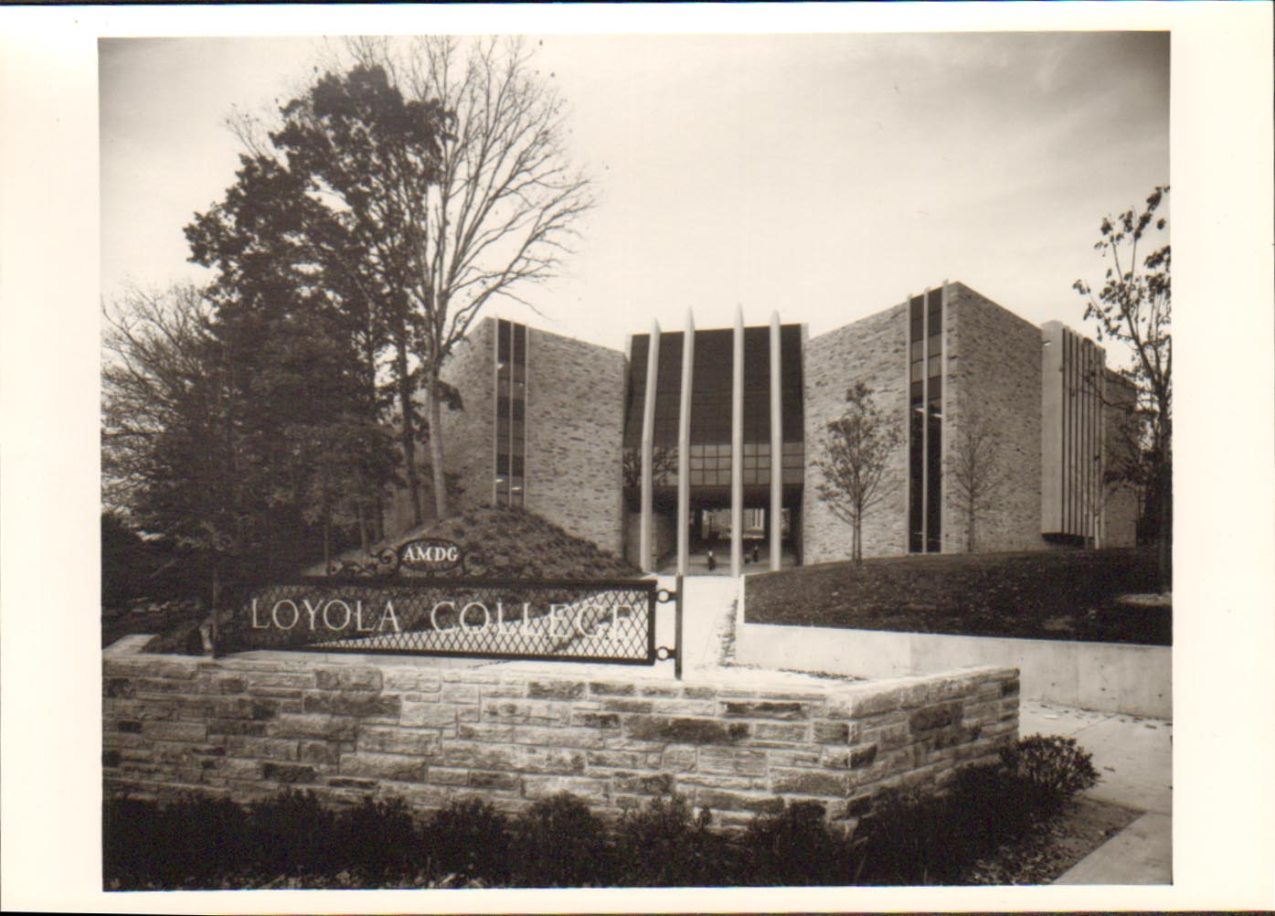 Finished Donnelly Science Center